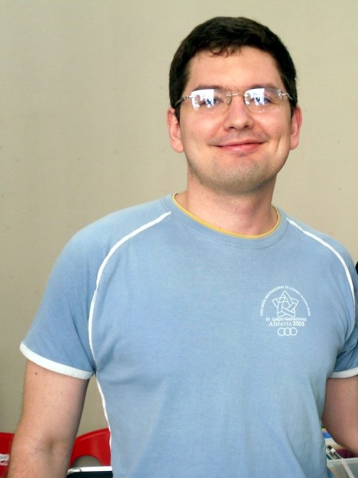 GM Alexander Moiseenko Ukraine, Merida 2008.